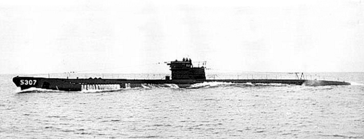 The Royal Norwegian Navy submarine KNM Kya (S307), circa 1960. She was originally built as the German Type VIIC-class submarine U-926 and commissioned 29 February 1944. The boat was decommissioned at Bergen, Norway on 5 May 1945 and transferred by Great Britain to Norway on 10 January 1949. U-926 became KNM Kya (S307) and served until 1962. The submarine was scrapped in 1964.